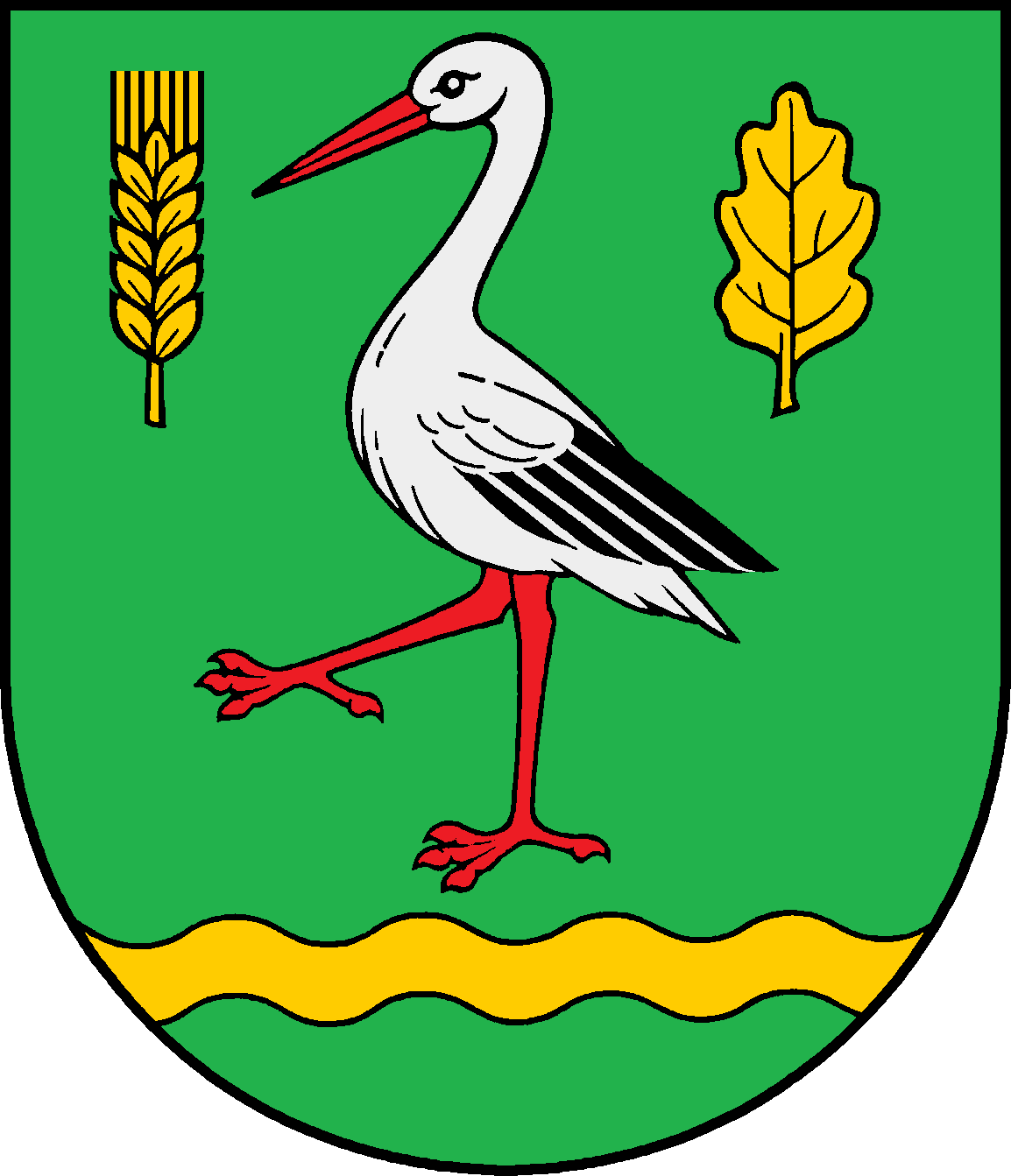 Coat of arms of the municipality Koberg in Schleswig-Holstein, Germany.